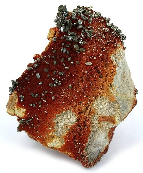 Vanadinite, Descloizite Locality: Georgetown, Georgetown District, Grant County, New Mexico, USA (Locality at ) Size: 7.8 x 6.3 x 4.4 cm. A rare specimen of New Mexico vanadinite, and from the famous copper mining area that produces the copper pseudomorphs after azurite floaters, too. The crystals are brown with a tint of green, olive green perhaps. The beautiful sparkling druse underneath is descloizite, in burnt umber to blood red coloration. Ex. Harold Urish Collection.